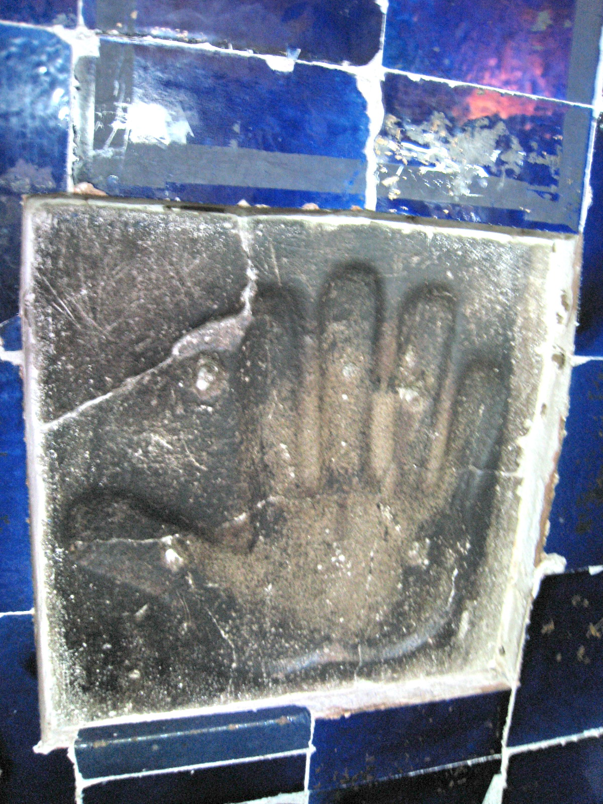 An etched figure of a hand , in Safi al-Din Ardabili Mausoleum, showing Twelver Shi'a sign of Panj-tan-e Āl-e Abā